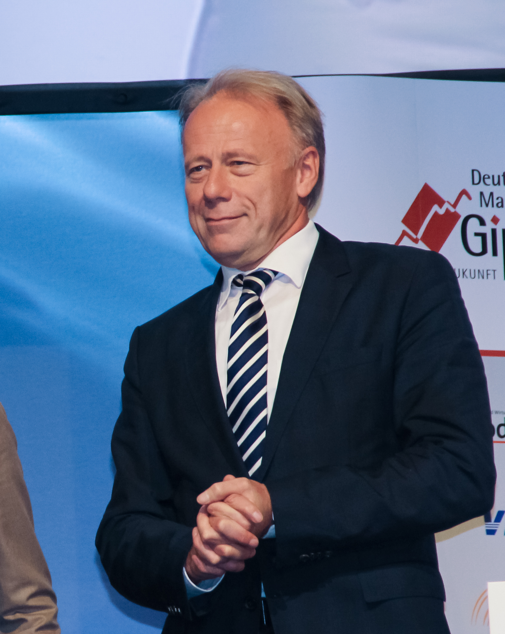 Politician of "Bündnis90 Die Grünen, Jürgen Trittin at a industry conference in Berlin 2012